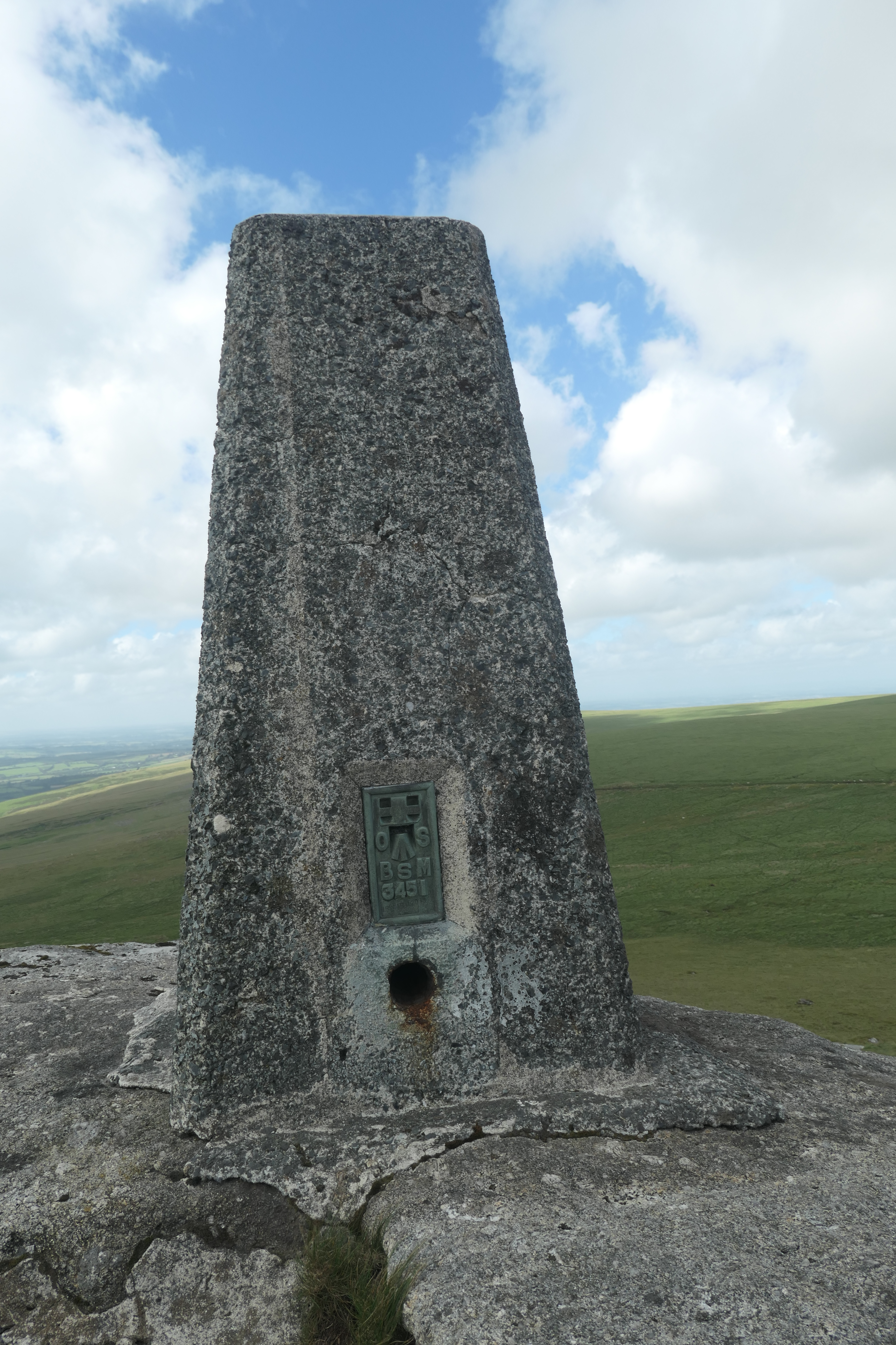 Taken on Dartmoor, UK on 5 July 2020 of the tor or area named in the title.